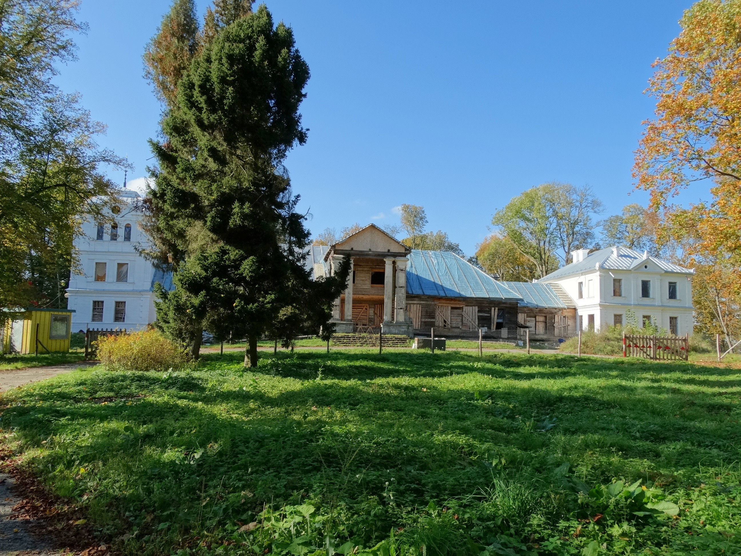 Manor in Abromiškės, Elektrėnai Municipality, Lithuania